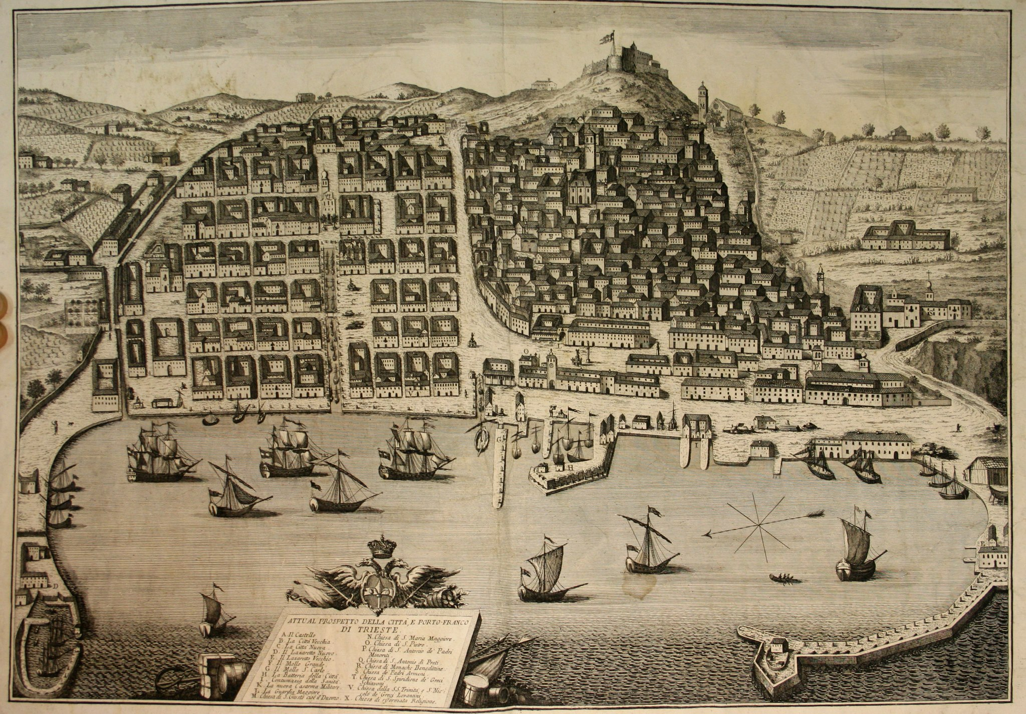 Trieste